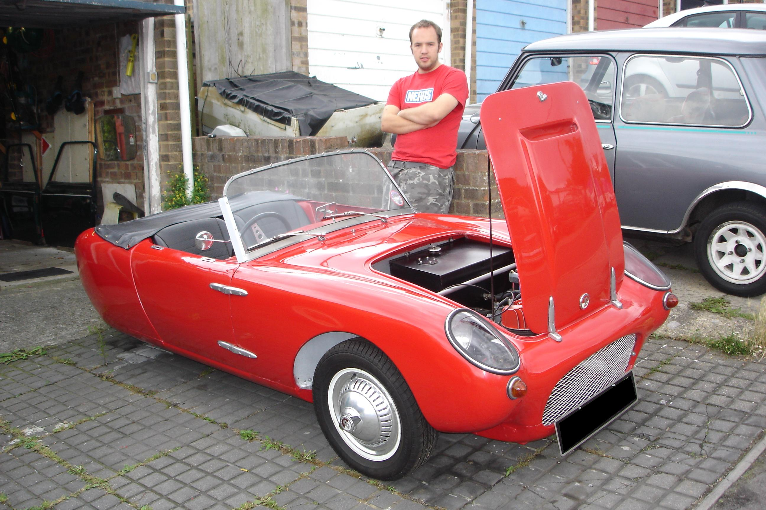 1960 Berkeley T60 in red